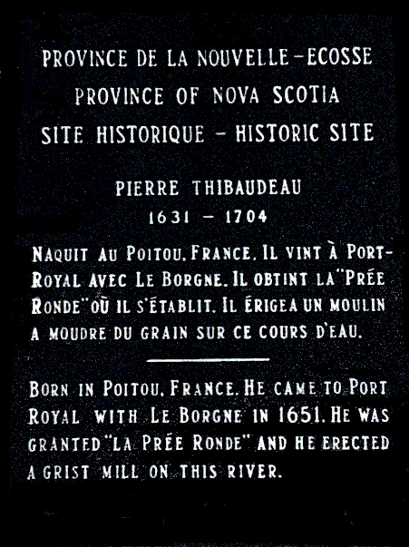 Historical plaque remembering the settlement of la Prée-Ronde